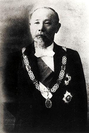 Portrait of Ito Hirobumi (伊藤博文, 1841 – 1909) as Knight Grand Cross of the Order of the Bath in 1902